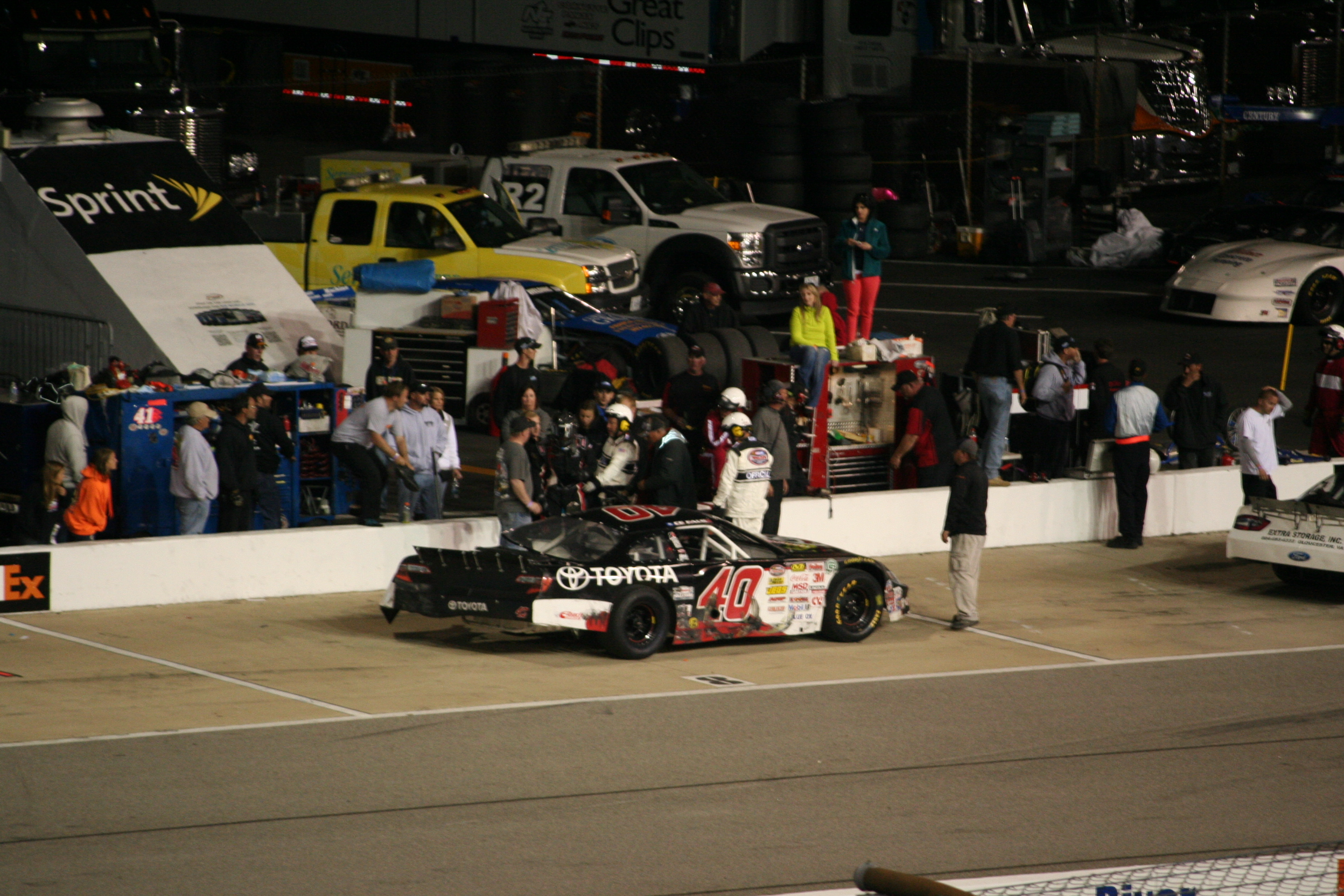 C.E. Falk's "used up" No. 40 Toyota following the Denny Hamlin Short Track Showdown at Richmond International Raceway, April 25 2013.